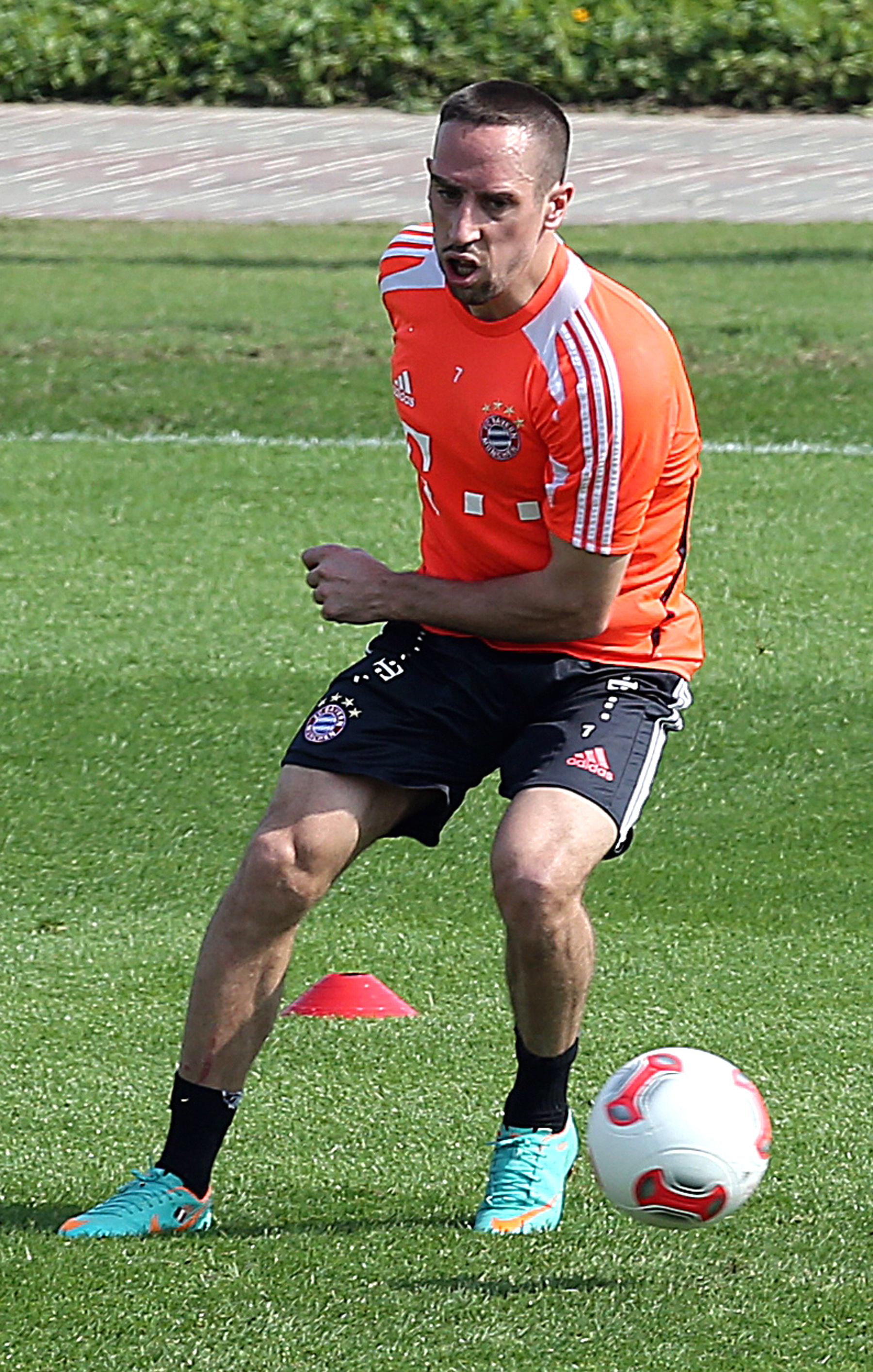 German club Bayern Munich's French player Franck Ribéry during his team's training session at the ASPIRE Academy in Doha.